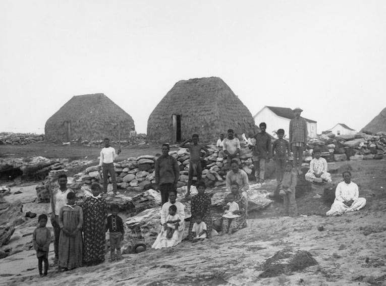 Hawaiian Islands, Hale [Halepili?]. A group of men, women and children, standing and sitting on the foreshore of a beach, a small settlement of wooden and thatched dwellings behind them, enclosed with rock walls. On the Puʻuwai Beach, in the Kamalino District, on the island of Niʻihau